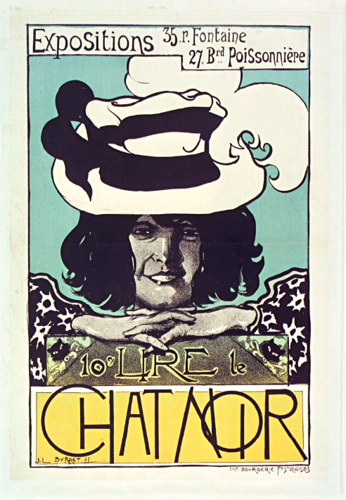 Expositions 35 r. Fontaine 27 brd Poissonnière 10 c. Lire le Chat Noir, lithographic poster designed by Léonce Burret, printed in Paris by [Antoine] Bourgerie & Cie. Dim.: 71 x 50 cm.